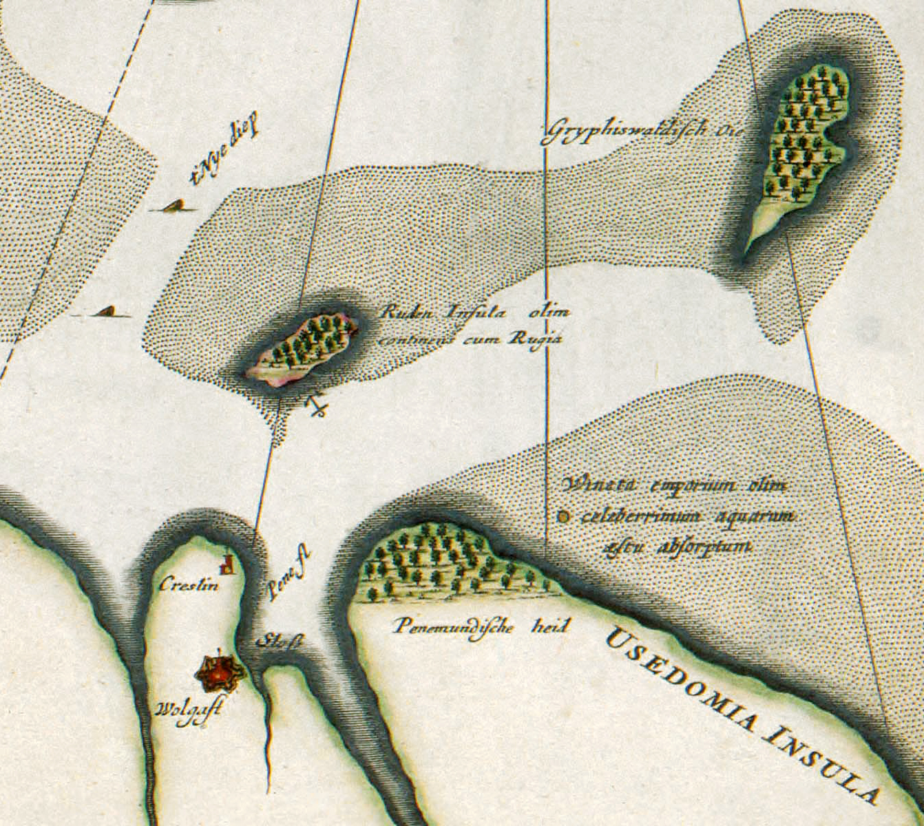 At the time Willem Jansz. Blaeu (1571-1638) first published his map of the Baltic island of Rügen in 1631 it formed part of Pommern; when this reissue appeared thirty years later it had become part of Sweden. For this map, Blaeu used information of the wall map of Pommern by Eilhard Lubin (1565-1621). The coats of arms are those of the islands leading families.